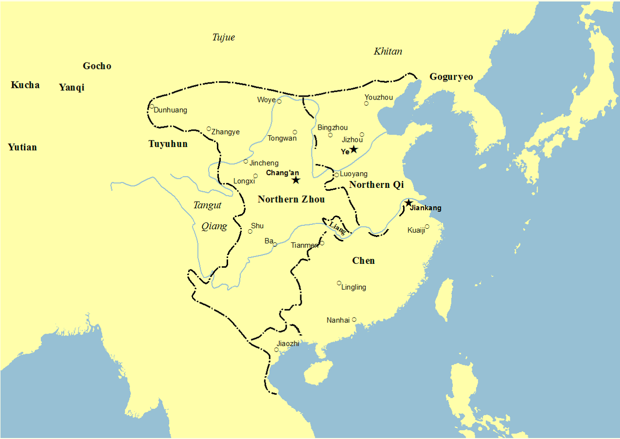 Map showing Northern Qi, Northern Zhou and Chen 中文（中国大陆）: 南北朝：北齐、北周、陈